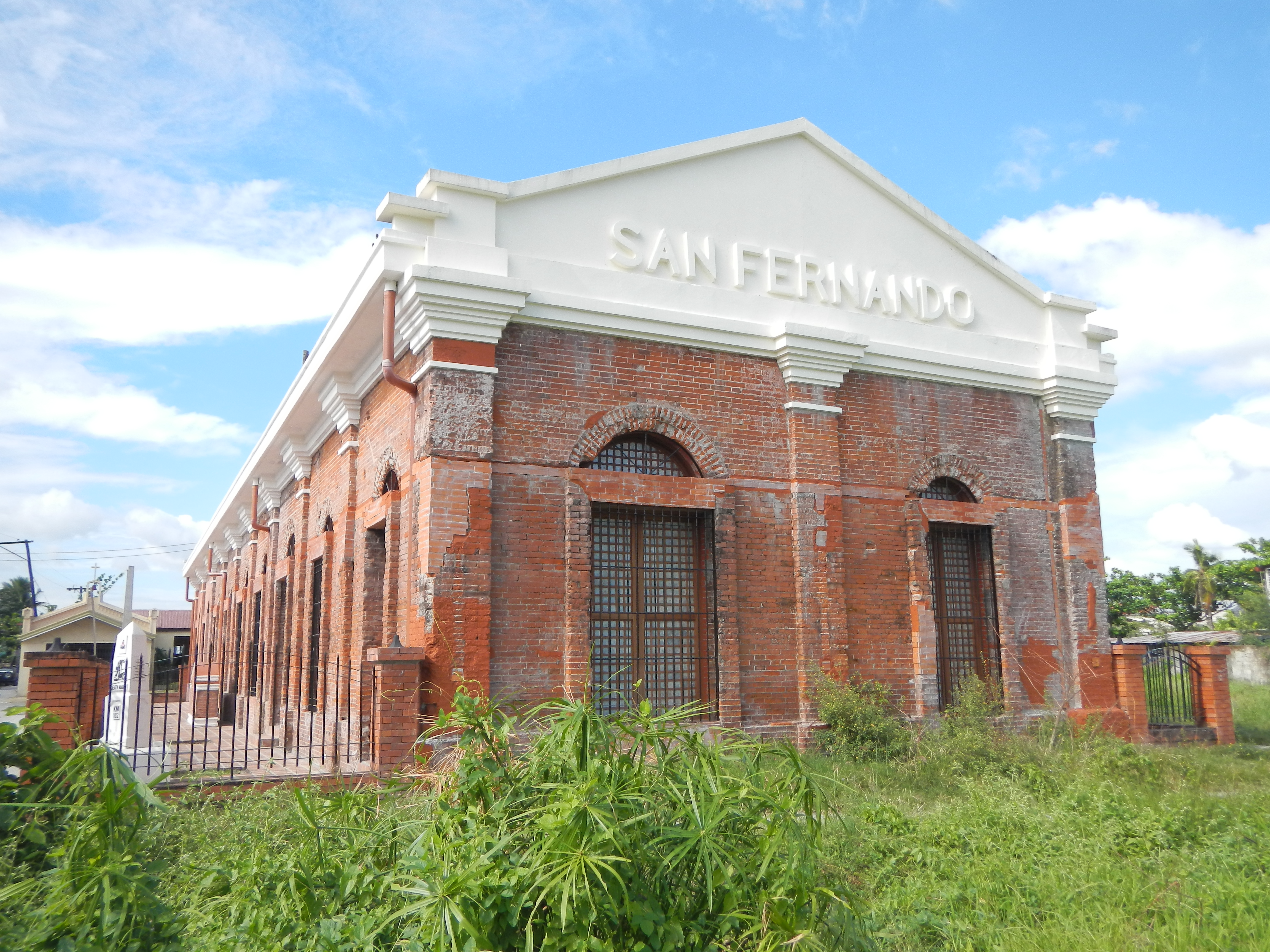 San Fernando railway station (Pampanga)